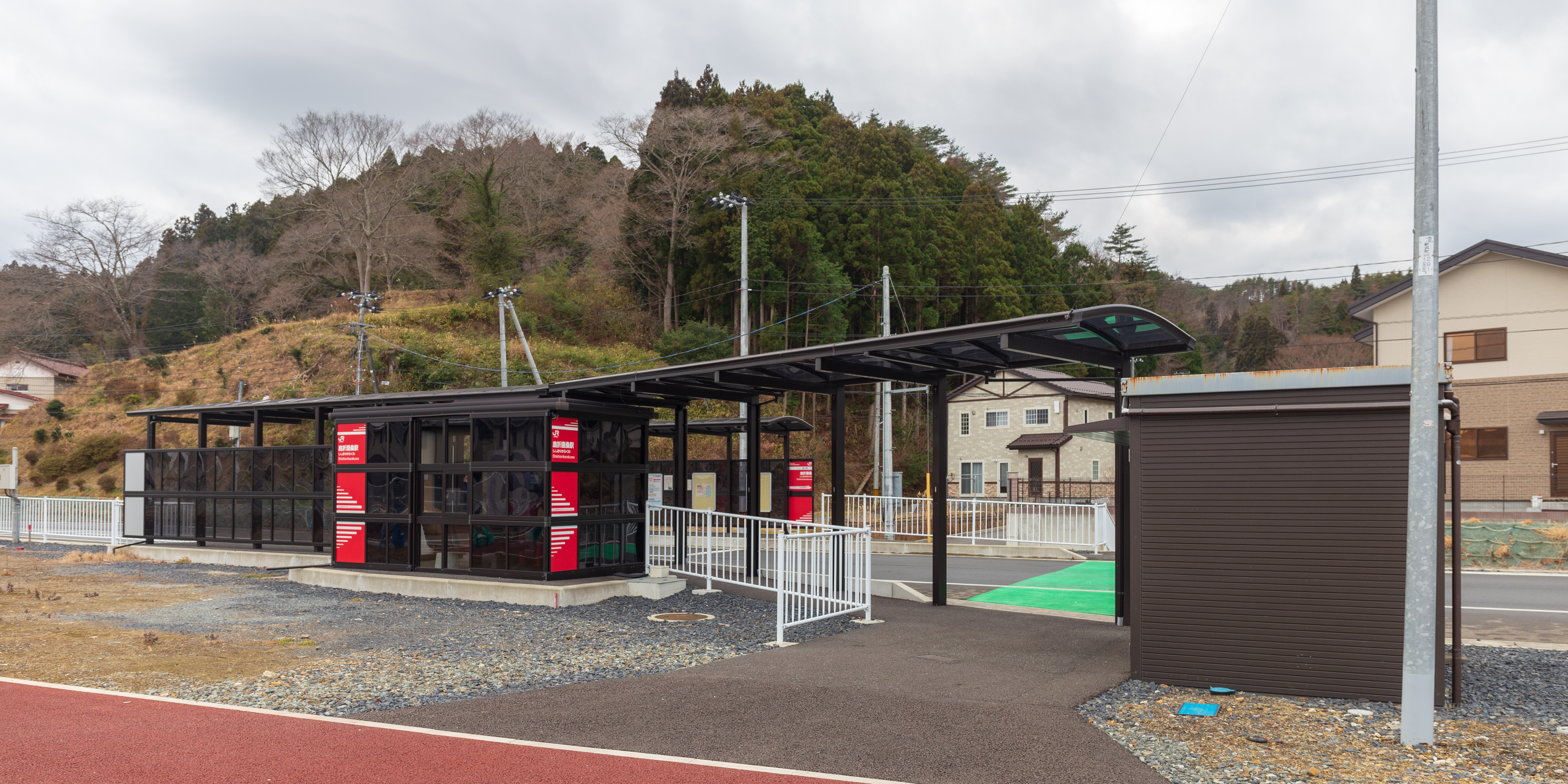 Shishiori-Karakuwa Station on the East Japan Railway (JR East) Ofunato Line BRT in Kesennuma City, Miyagi Prefecture, Japan